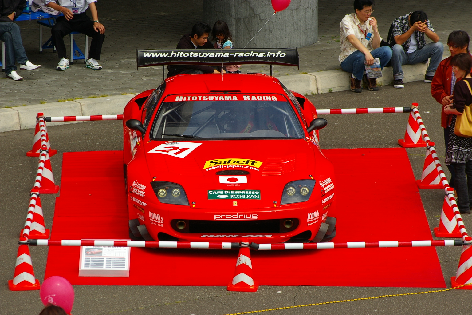 JLMC Ferrari 550 GTS, Northern Load Car festival in Wakkanai city.